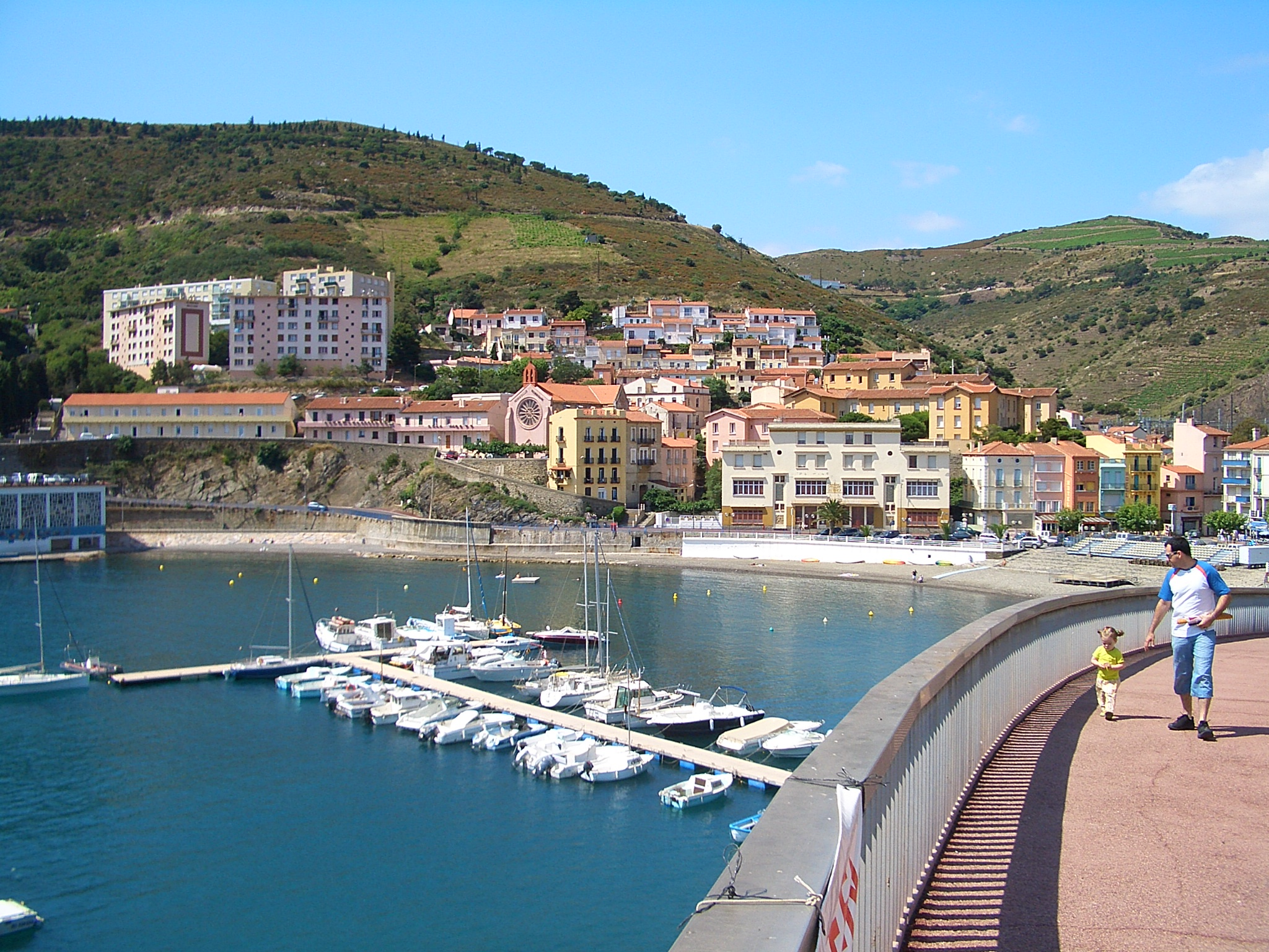 Around the little harbor, with a beach, in central Cerbère